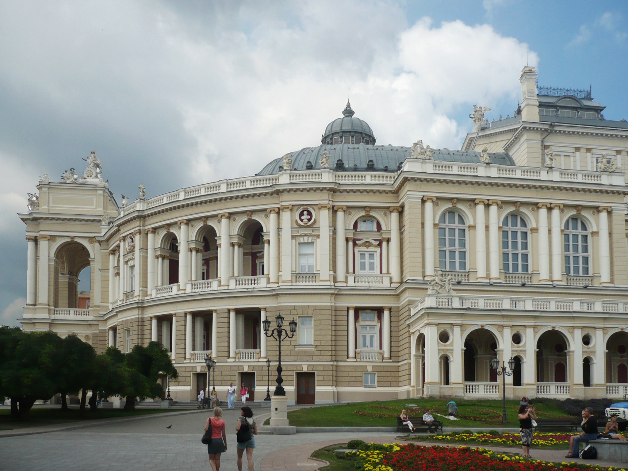 Side view of Odessa Opera Theatre